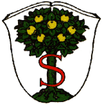 Coat of Arms of Sulzthal